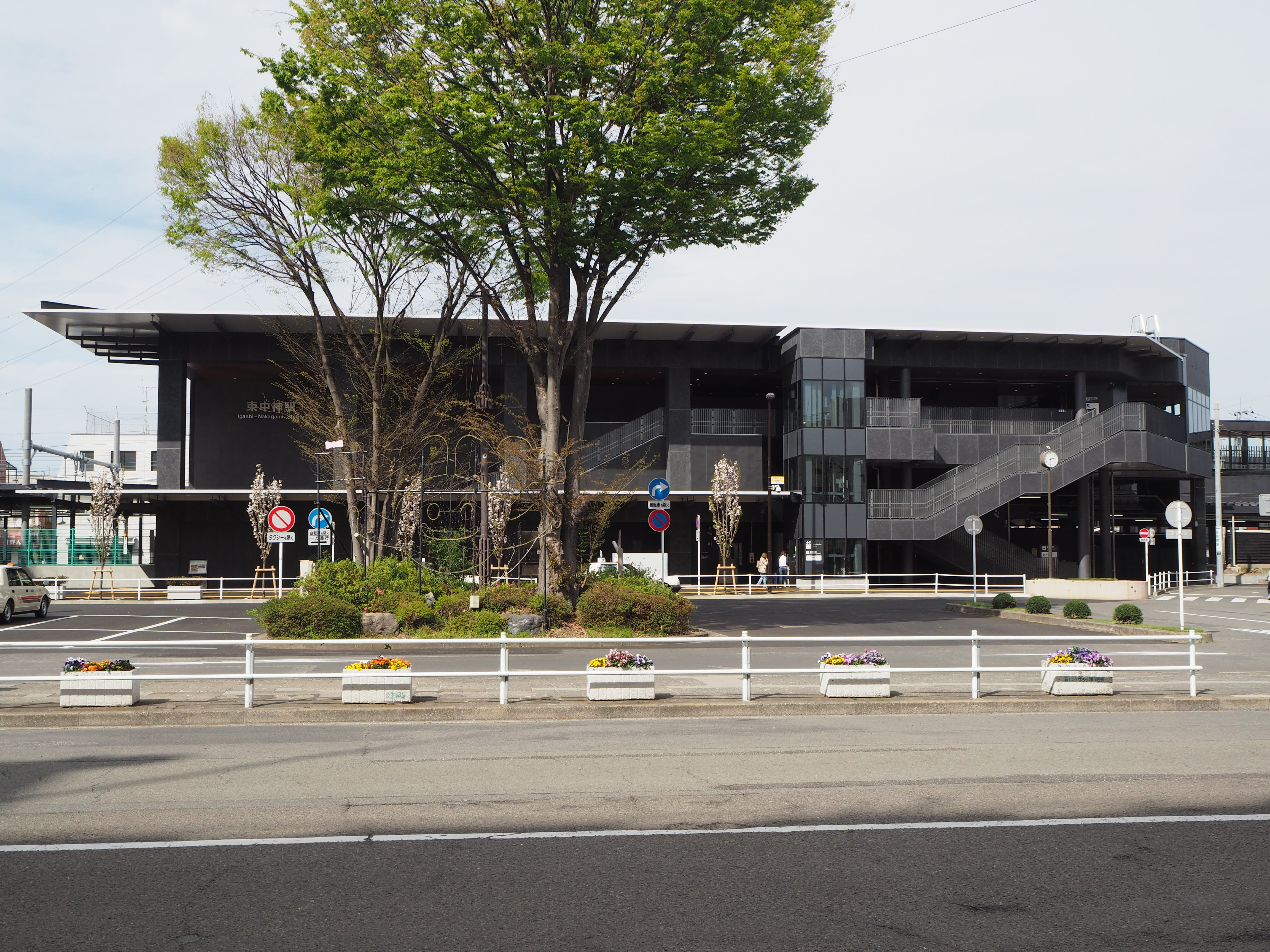 South entrance of Higashi-Nakagami Station